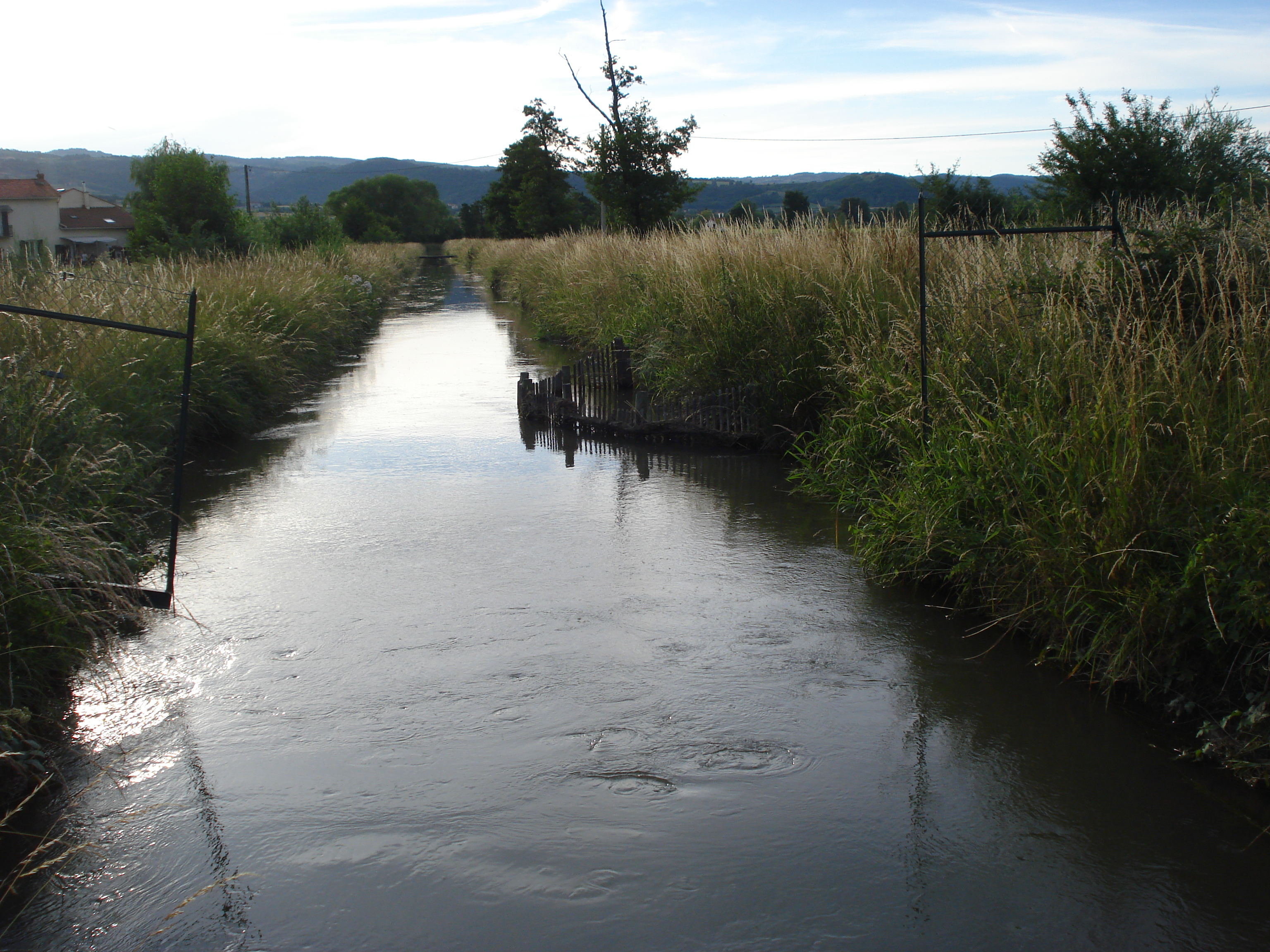 Canal du Forez à Montbrison (Loire, Fr), vue vers l'Ouest, en direction du Haut Forez.